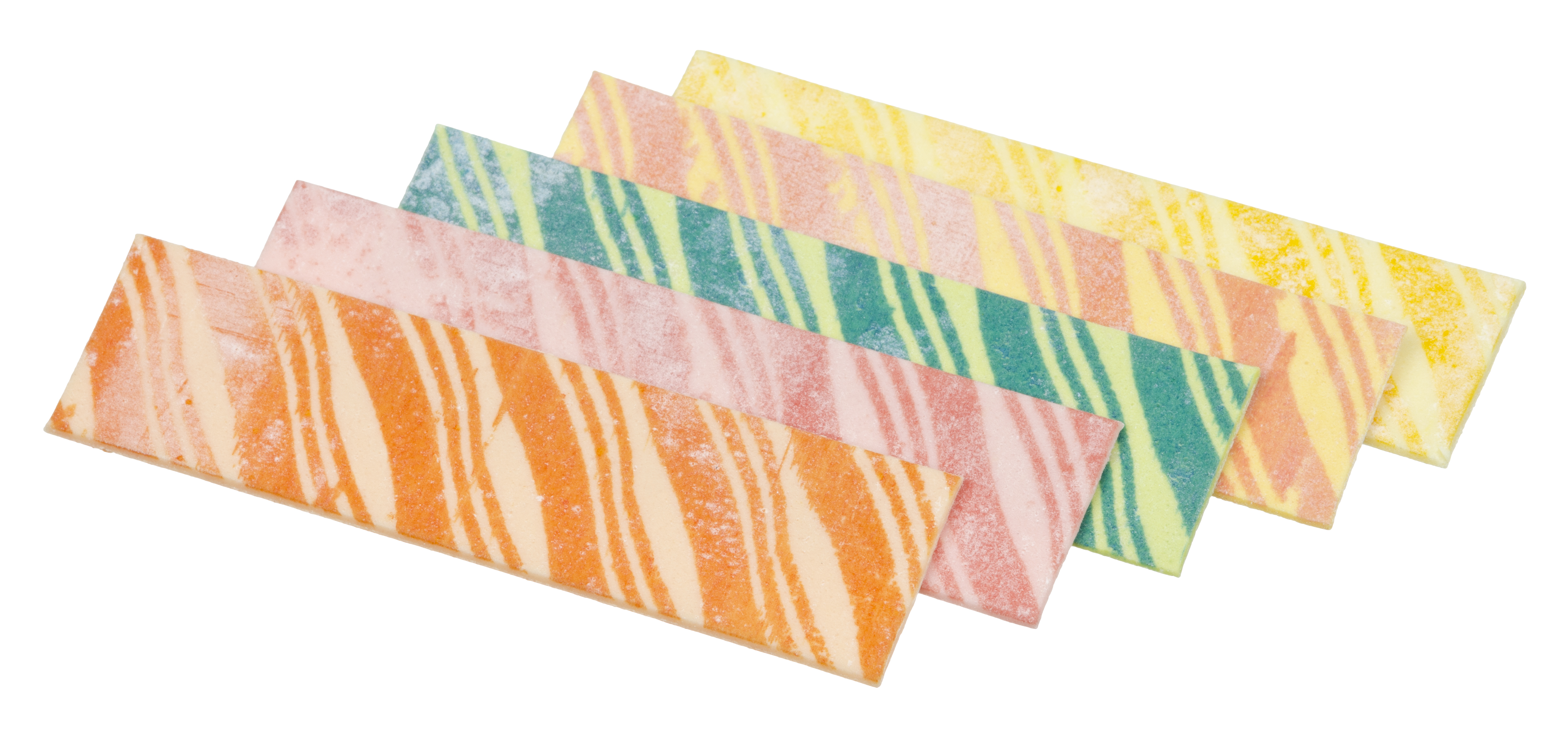 An array of Fruit Stripe gum flavors, which includes all five flavors in each pack of gum: melon, cherry, lemon, orange and peach.